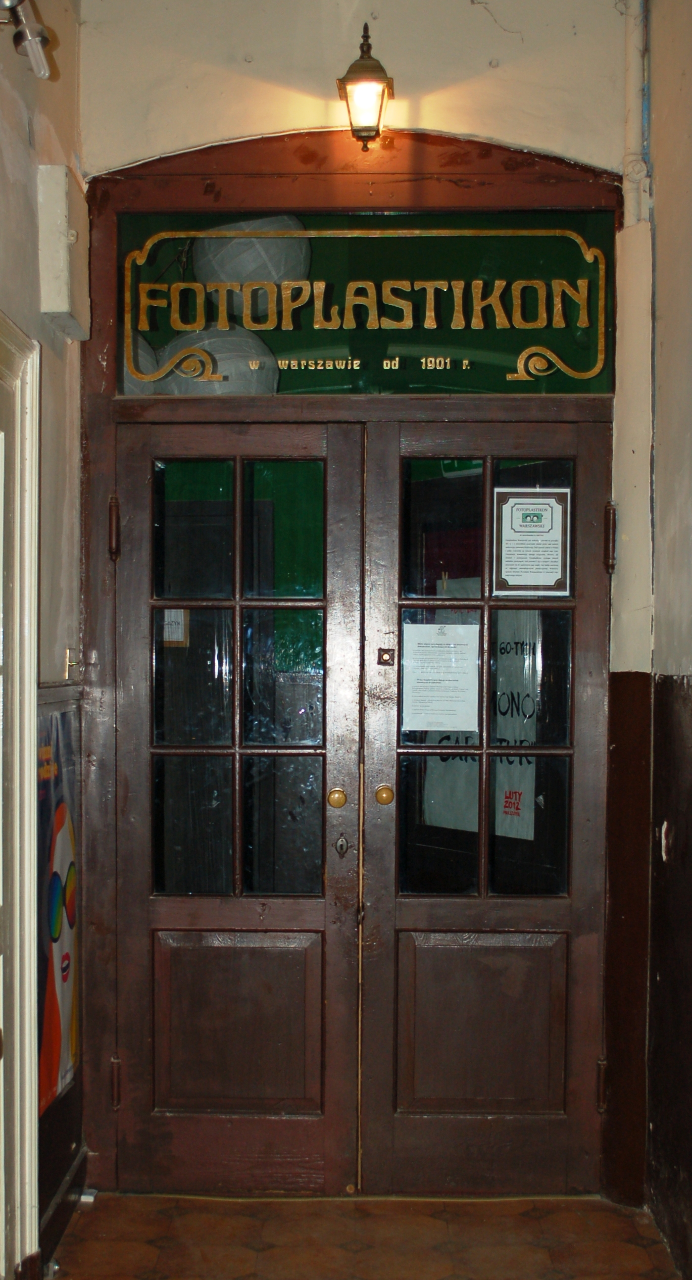 Fotoplastikon Warsaw, Jerozolimskie 51